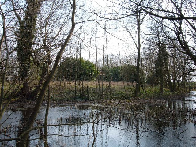 Hulme Hall Moat Looking south from a point on Hulme Hall Lane. The chimney tops of Hulme Hall are peeping above the bright green tree just left of centre.